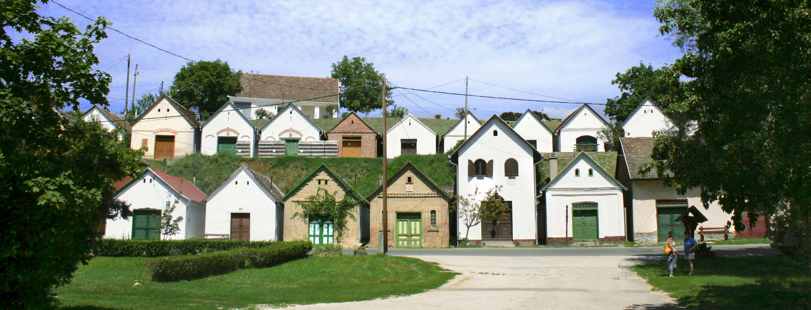 Hungary, Baranya County, Villánykövesd, wine cellars